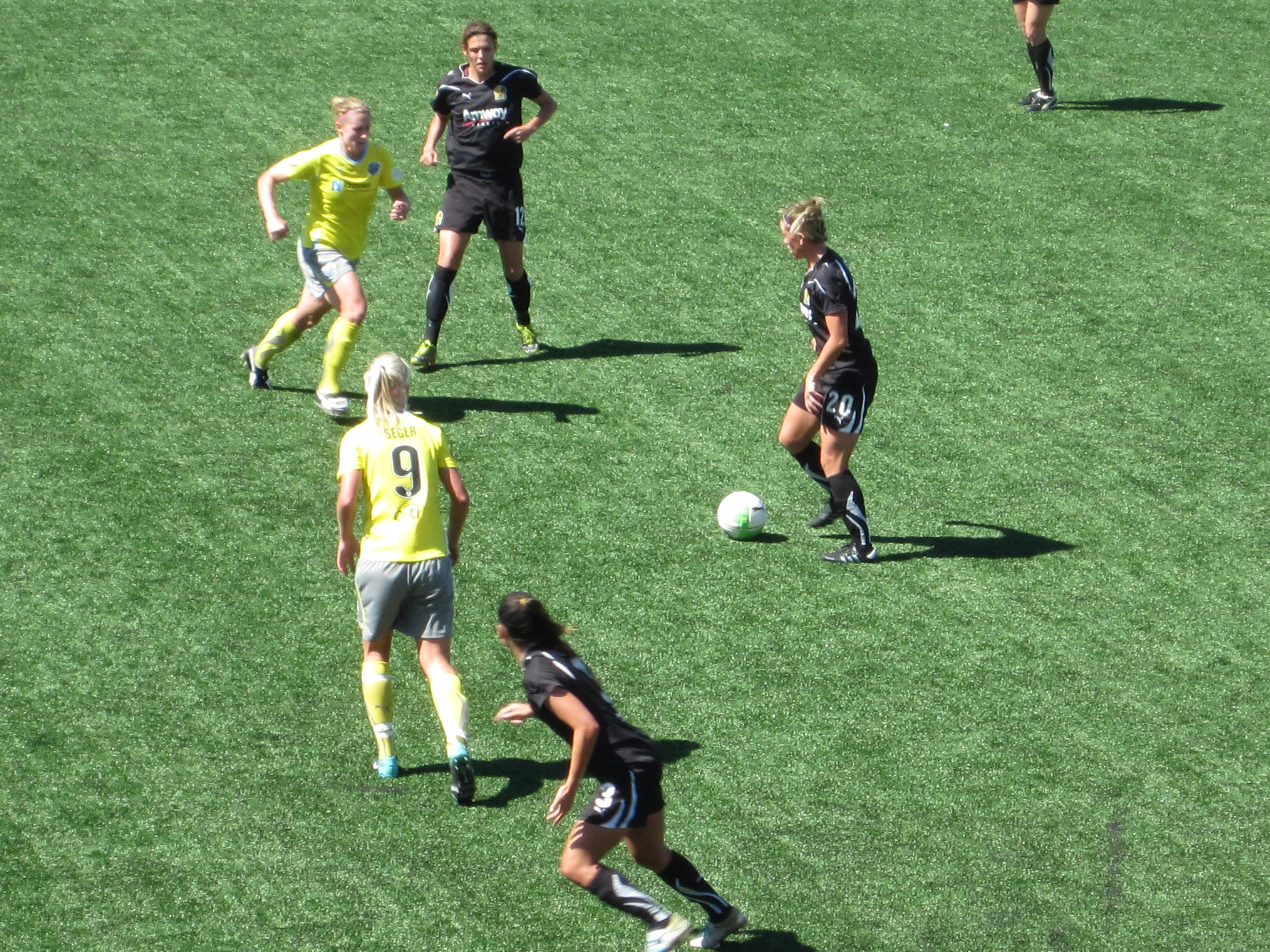 The 2010 WPS Championship at Pioneer Stadium in Hayward between the FC Gold Pride and the Philadelphia Independence. The Gold Pride won 4-0.